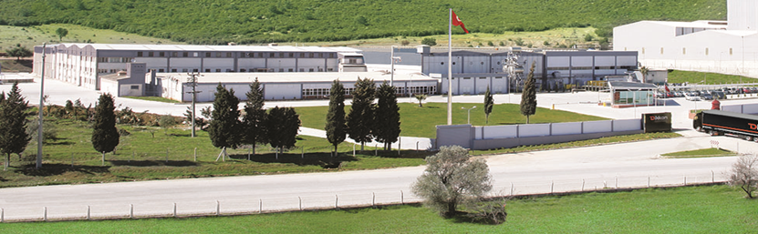 Dikkan premises 2016